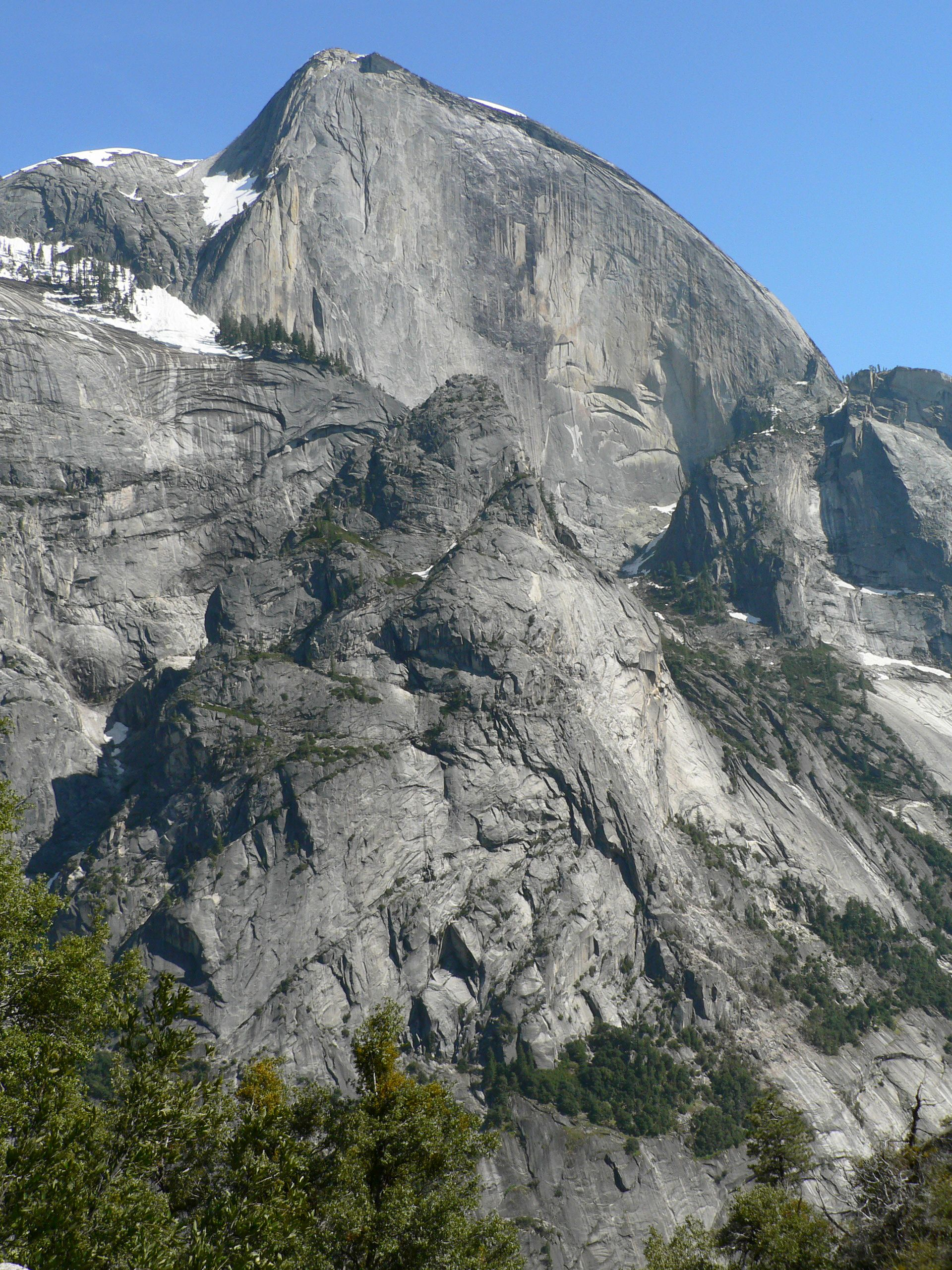 Half Dome (center, skyline, 8,836 feet or 2,693 metres), Ahwiyah Point (center, in front, 6,920 feet or 2,110 metres), taken from the Snow Creek Trail, Yosemite National Park, at an elevation of 5,760 feet (1,760 m)